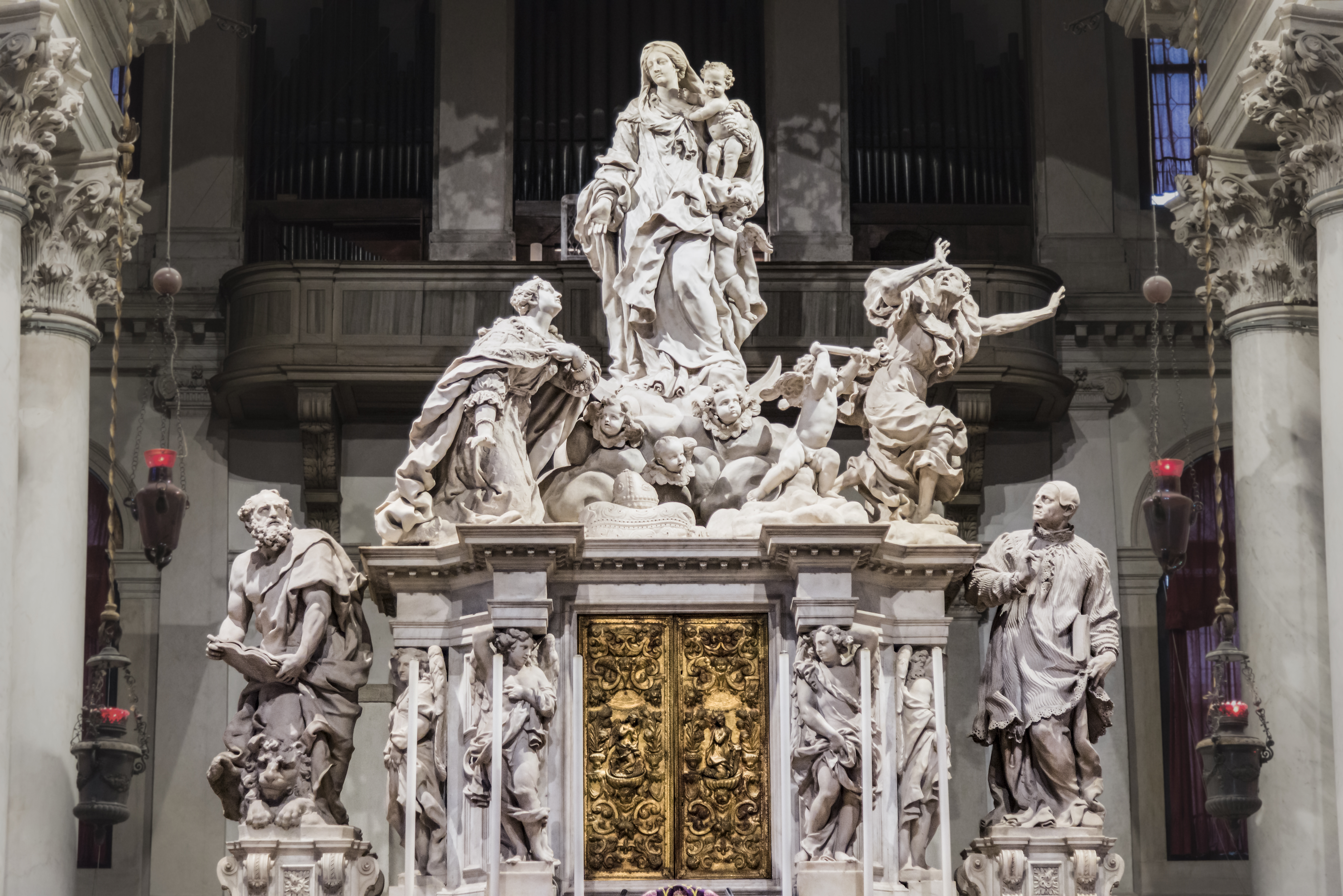 Santa Maria della Salute in Venice. The main altar - sculptural group on the altar represents a Madonna with child, to represent the Salute that defends Venice from the plague. It is the work of a very active Flemish sculptor in Venice, Josse le Court born in Ypres in 1627 and died in Venice in 1679.